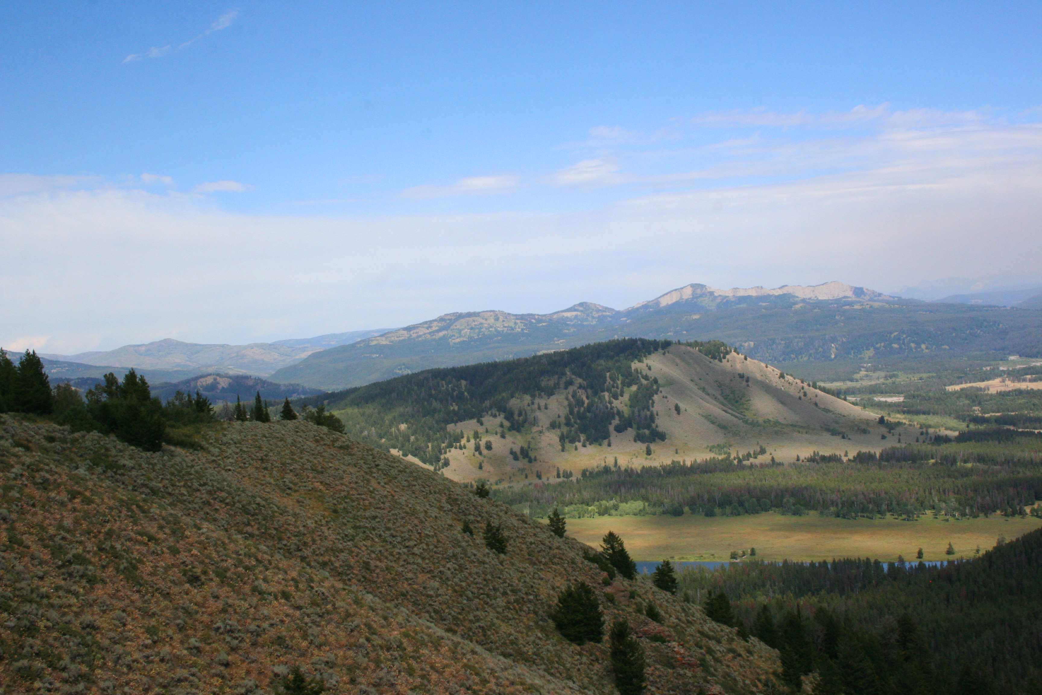 Pitchstone Plateu